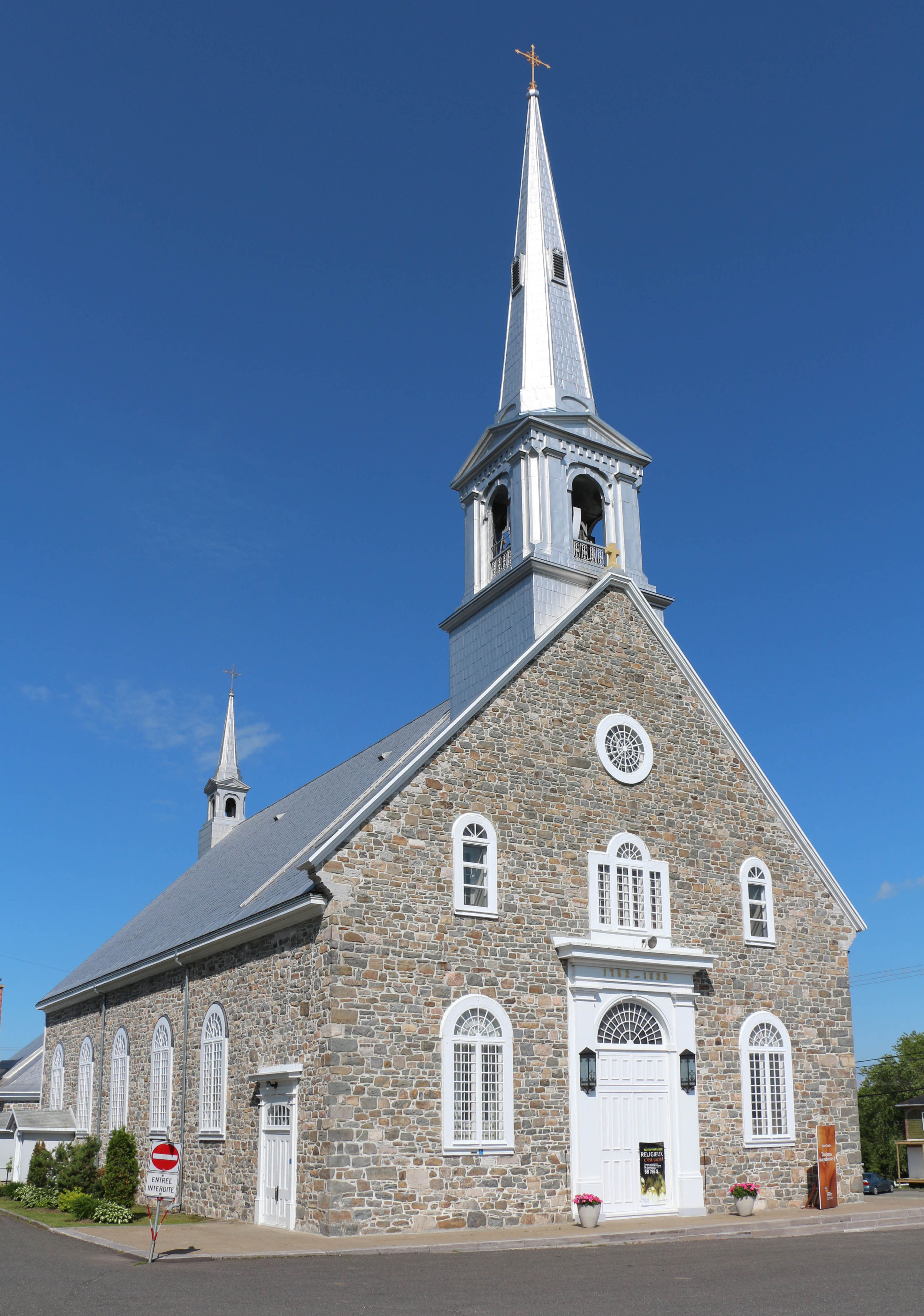 Saint-Charles Church, Saint-Charles-de-Bellechasse, Quebec, Canada